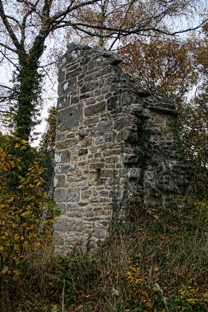 Staward Peel Remains of the gate to Staward Peel.